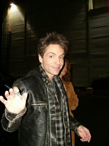 Candid photo of Richard Marx